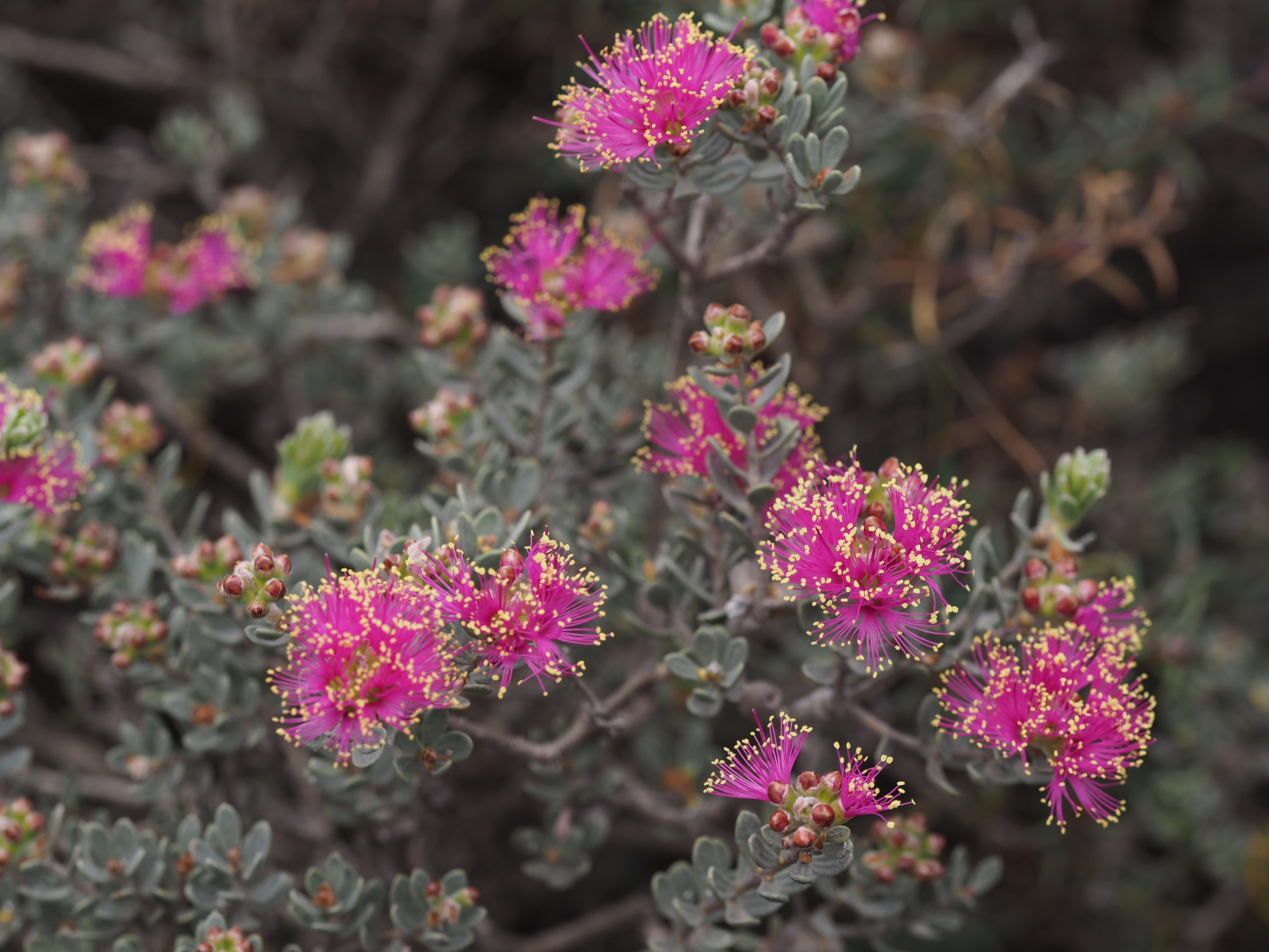 Melaleuca leptospermoides growing in the Charles Gardner Nature Reserve near Tammin